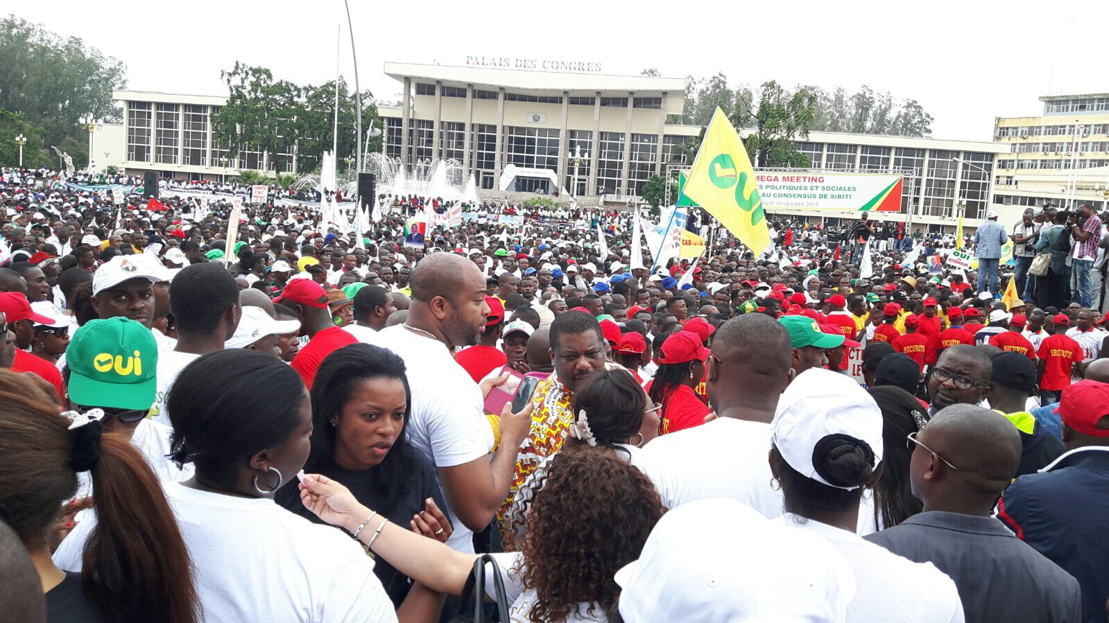 Pro-constitutional reform demonstration in Brazzaville - Palais Des Congrès. October 2015. The Palais Des Congrès is the Republic of Congo’s largest conference centre and the seat of the Parliament of the Republic of Congo[1] [2] [3] (built in 1984[4][5]).